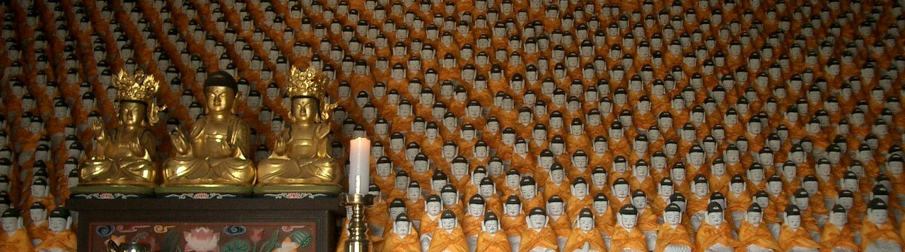 Daeheungsa in Haenam County, South Jeolla province, South Korea.